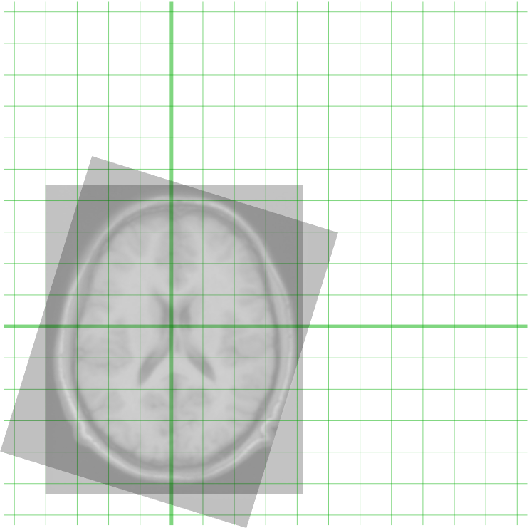 mni-autoreg_03-registered.png